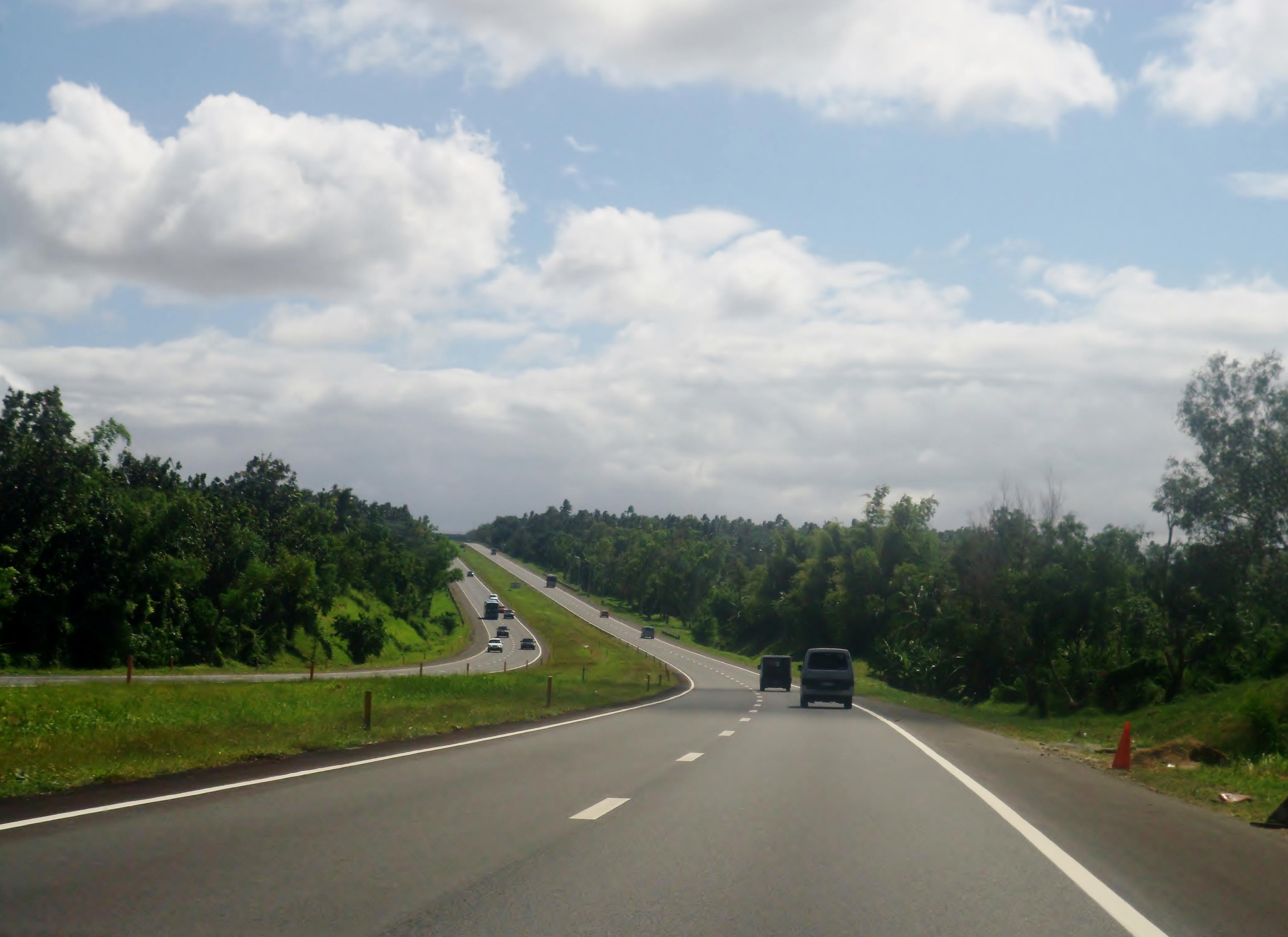 The Southern Tagalog Arterial Road (STAR Tollway) near Barangay Hidalgo and Barangay Bagumbayan, Tanauan City, BatangasTagalog: Ang STAR Tollway malapit sa Barangay Hidalgo at Barangay Bagumbayan, Lungsod ng Tanauan, Lalawigan ng Batangas.